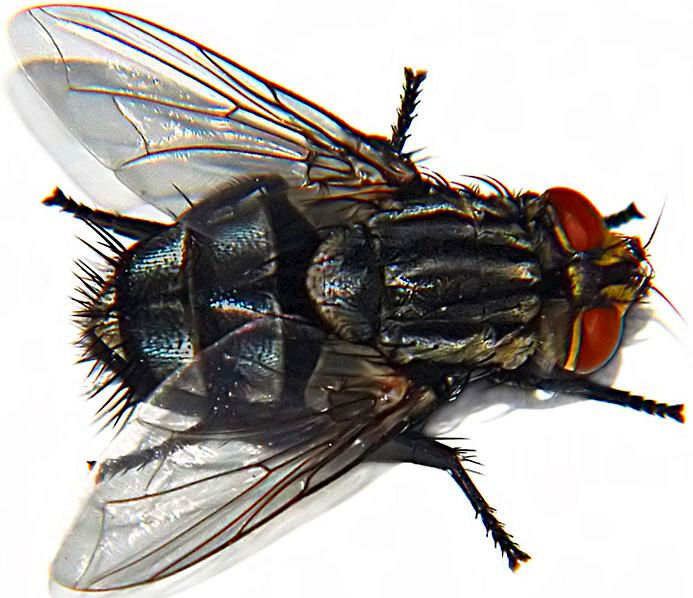 Blowfly (Calliphoridae) Original image in relief - cropped and removed author's signature "José Reynaldo da Fonseca".